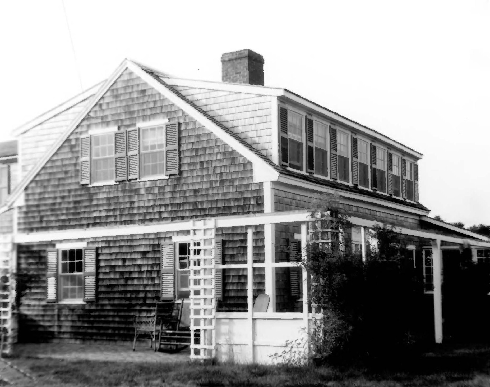 Louis Brandeis House, Chatham (Barnstable County, Massachusetts) cropped This image or media file contains material based on a work of a National Park Service employee, created as part of that person's official duties. As a work of the U.S. federal government, such work is in the public domain in the United States. See the NPS website and NPS copyright policy for more information. Object location41° 40′ 23″ N, 69° 59′ 00″ W